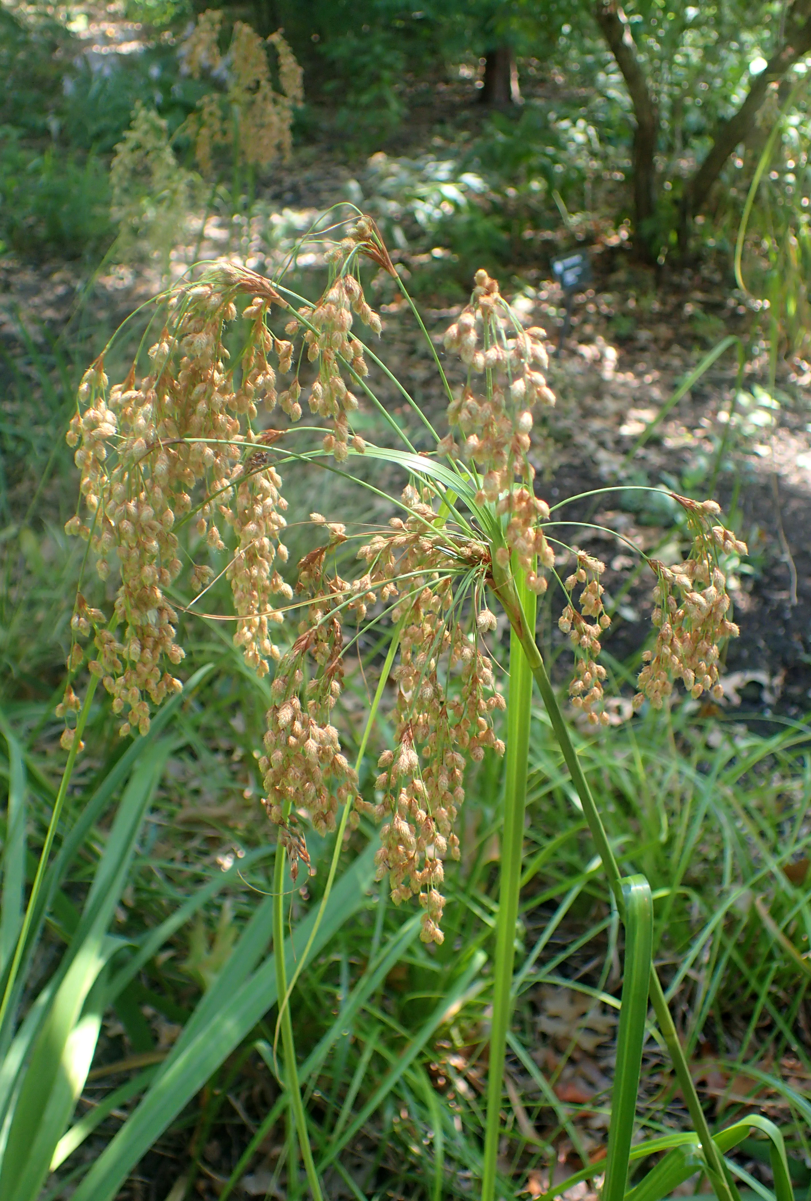 Scirpus cyperinus in the Missouri Botanical Garden, St. Louis